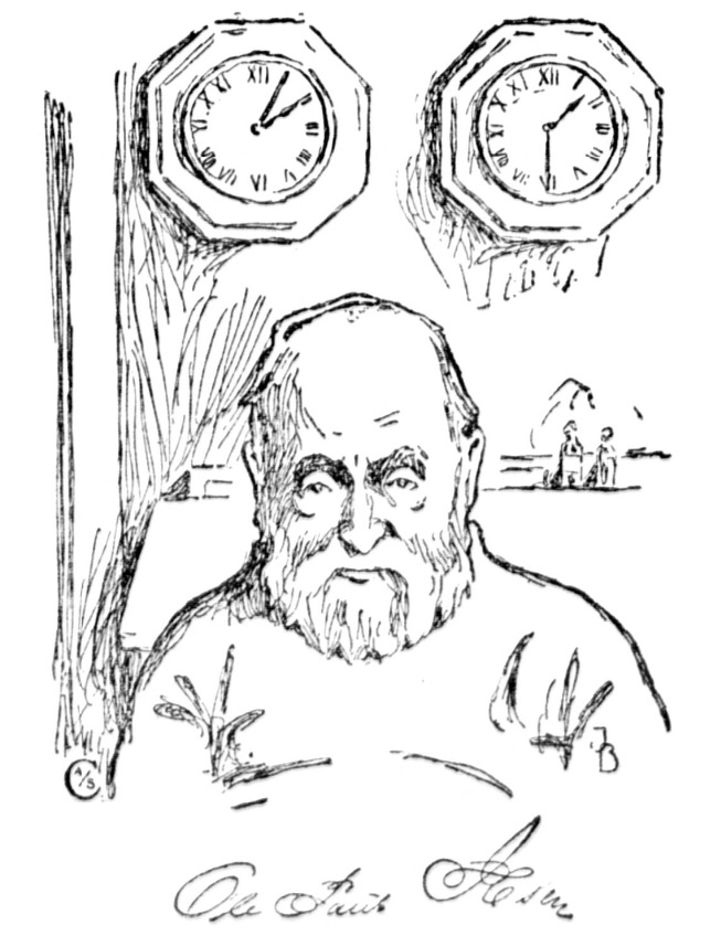 Drawing of Ole Paus Ibsen (brother of Henrik Ibsen) by Johan Bull, Aftenposten, 1915